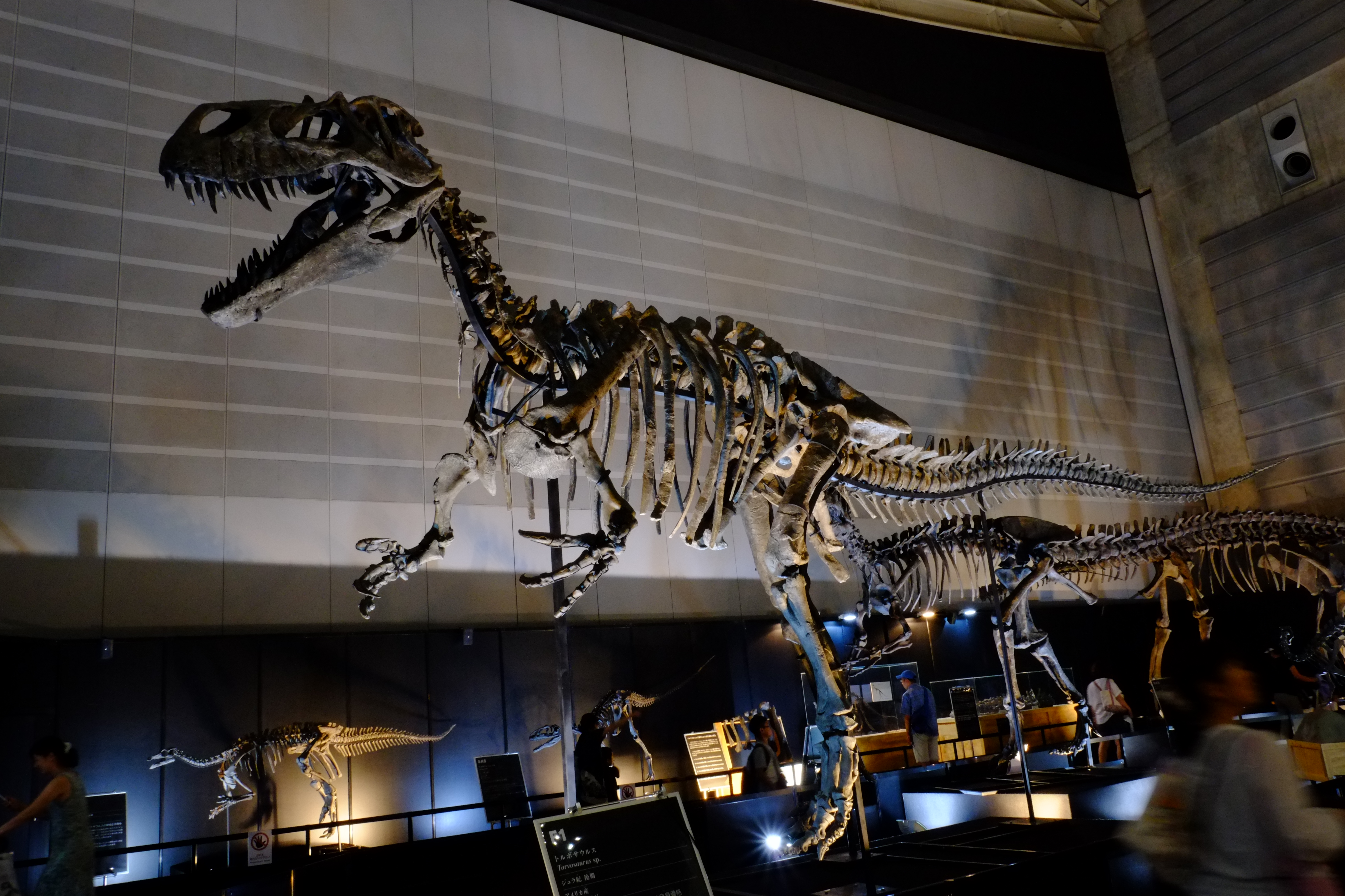 実物全身骨格だよ！